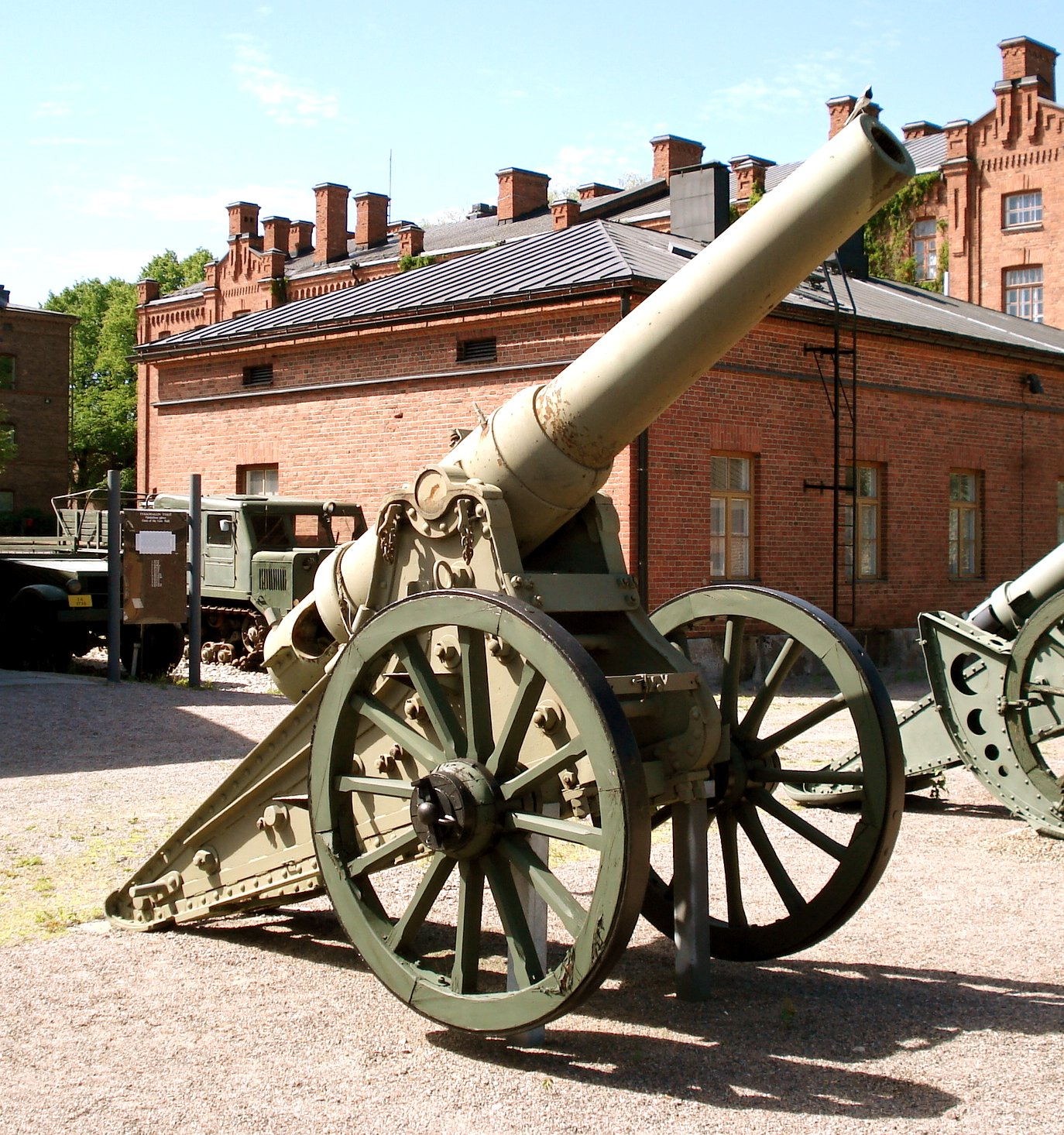 Russian 152,4 mm (6 inch) 190 pood M 1877 fortification gun (осадная пушка), displayed in Hämeenlinna Artillery Museum. This gun was manufactured by Obukhov in 1881. Photo taken on June 18, 2006. Source: Photo by me, User:Balcer.